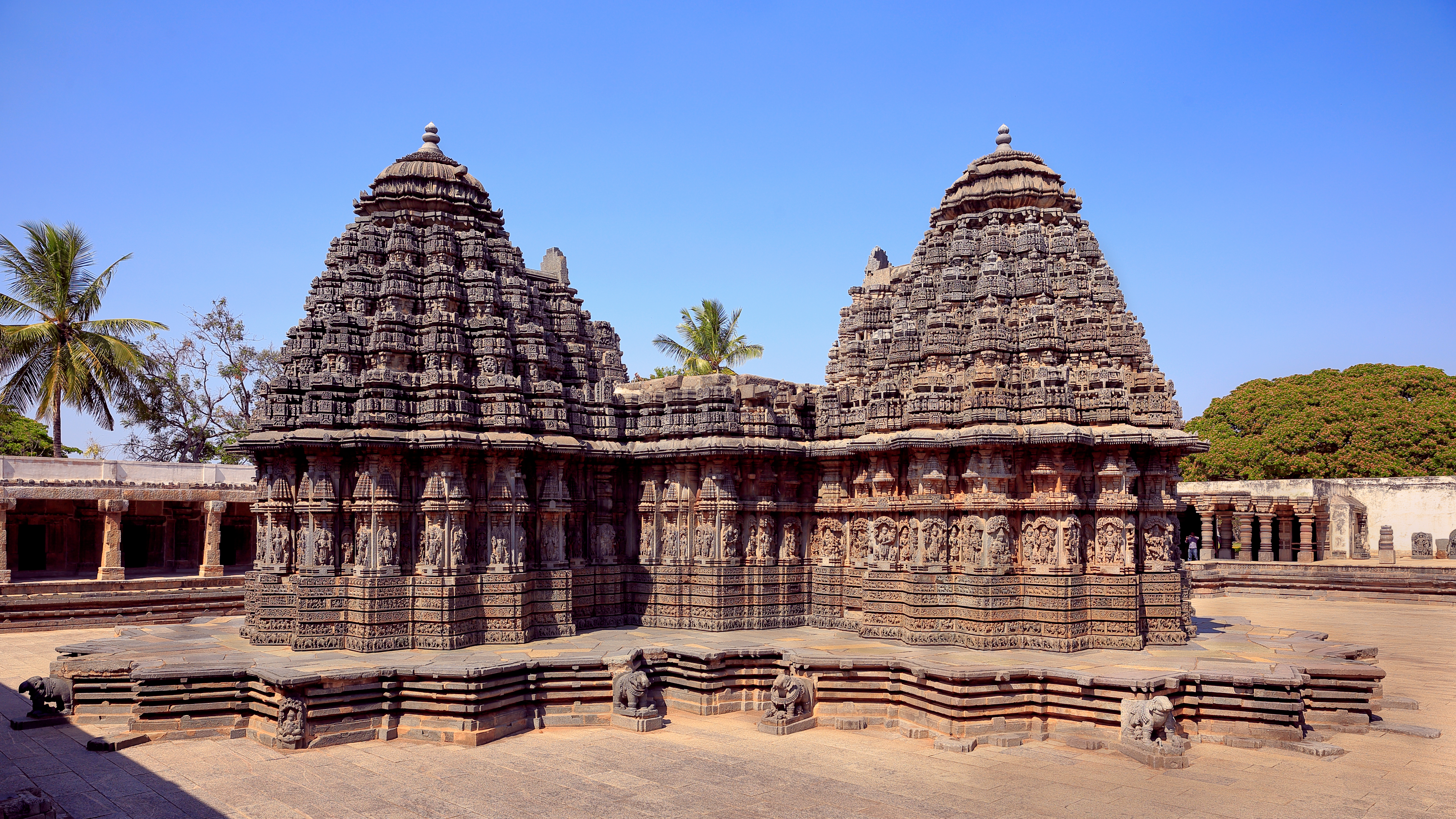 The Chennakesava Temple located at Somanathapura near Mysore. Built in 1268 during the Hoysala dynasty which was the major power in South India.